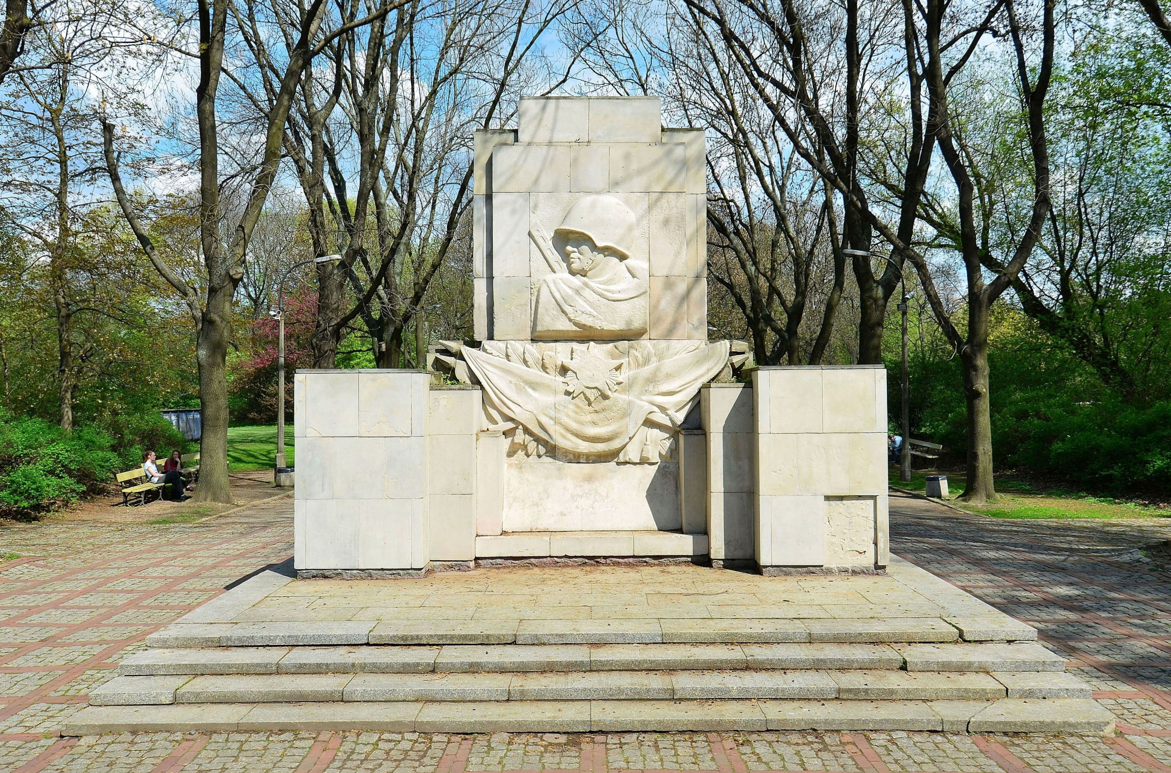 Monument of Gratitude to the Soldiers of the Soviet Army in Skaryszewski Park in Warsaw